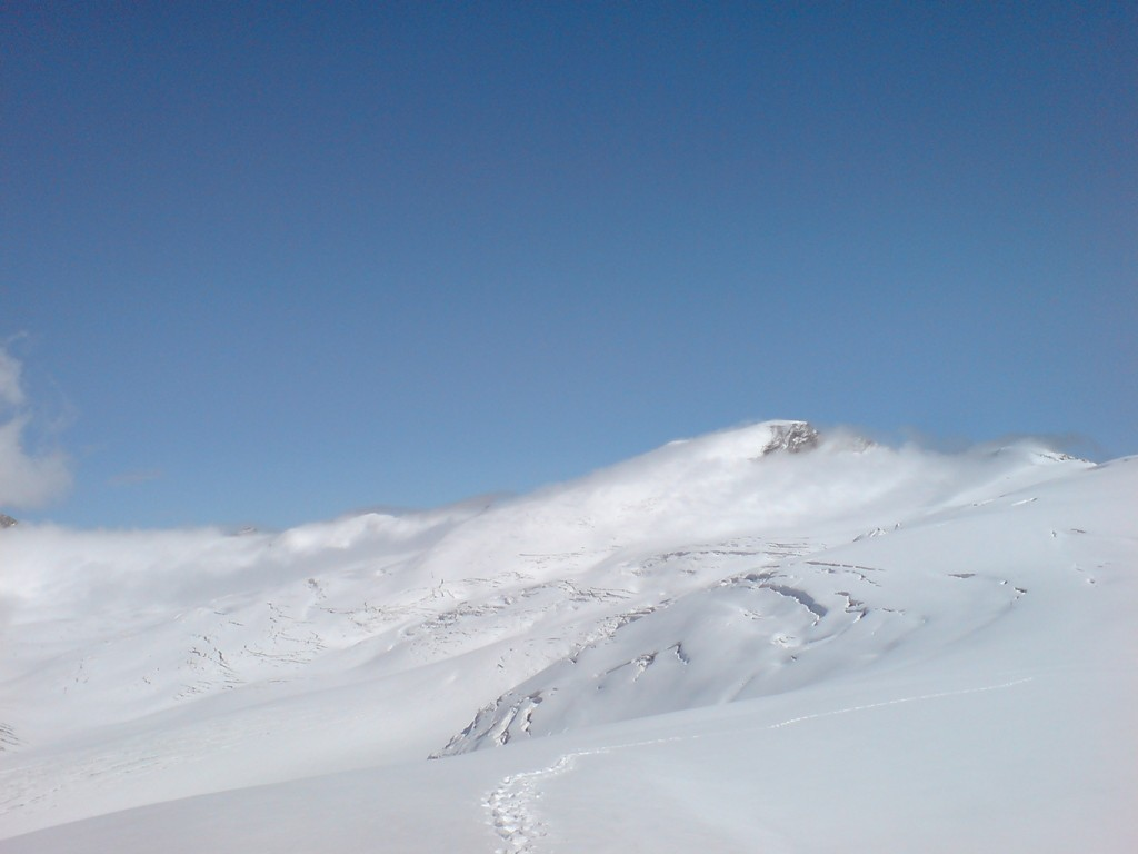 View from Stockhornpass (Findel Glacier), Pennine Alps